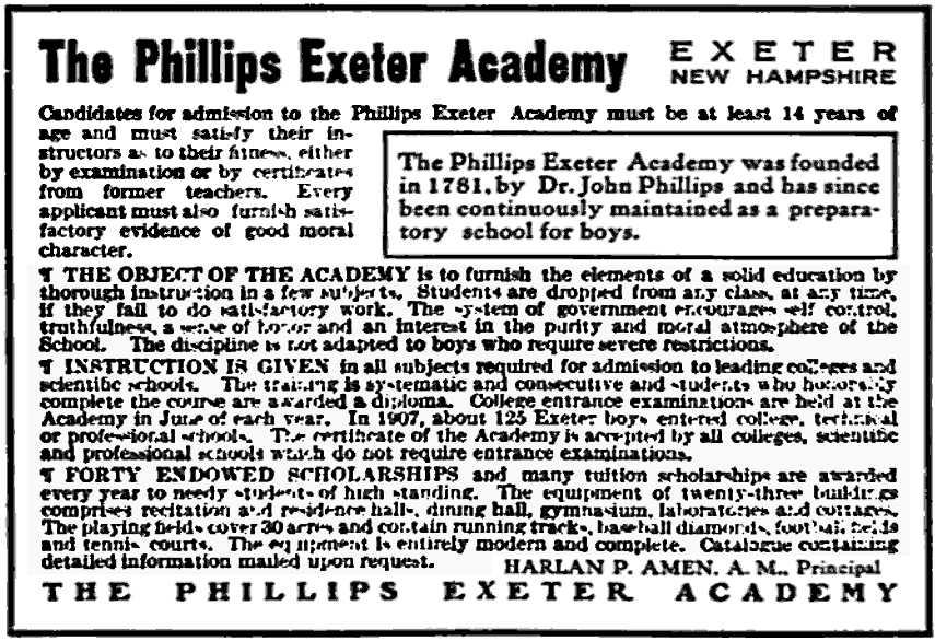 Advertisement for Phillips Exeter Academy, a boarding school in Exeter, New Hampshire